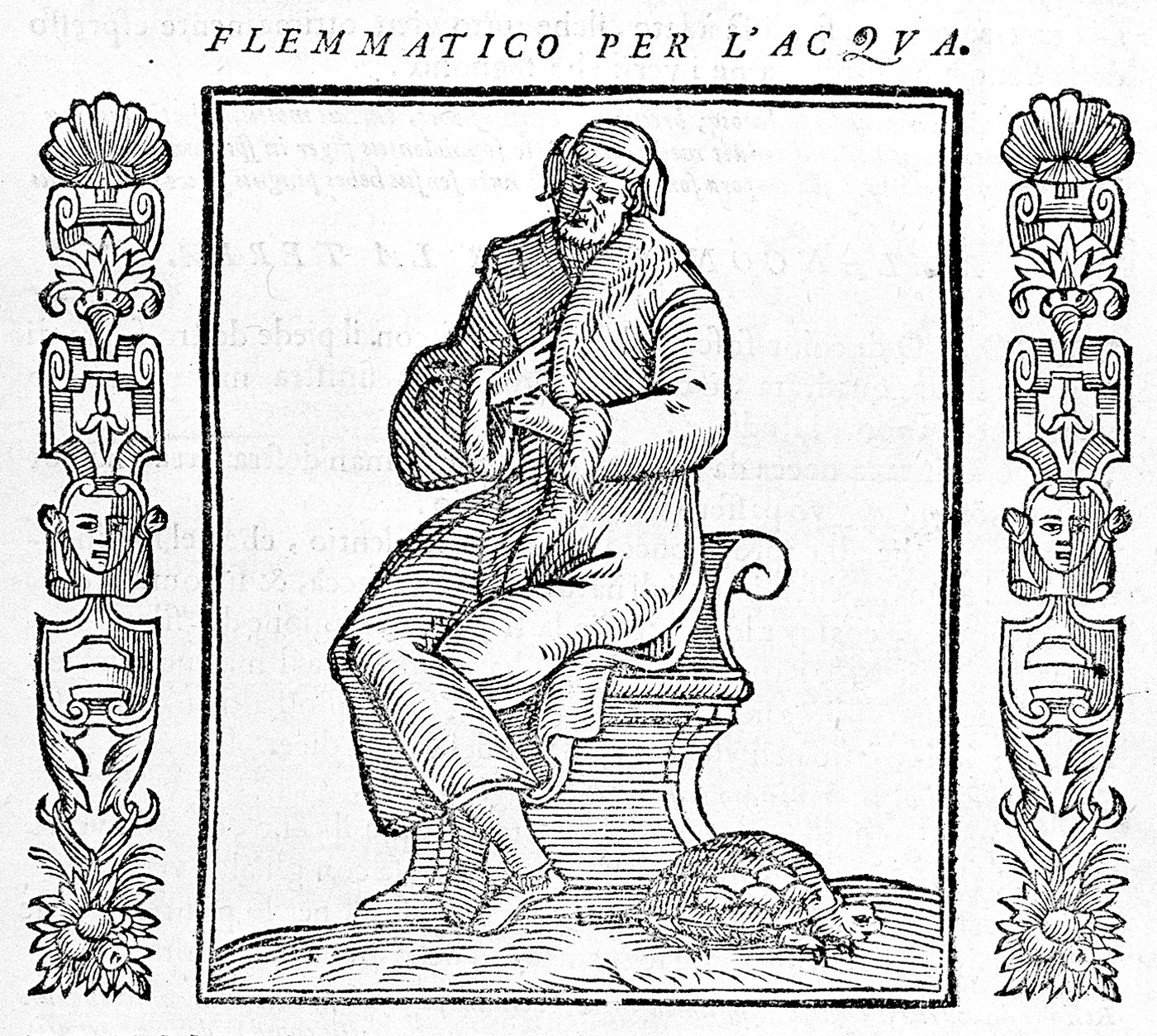 Seated man with tortoise, corresponding to temperament based on phlegmatic humour. Part of a set of figures representing the four temperaments, (It. 'complessioni') determined by the four humours, and showing their affinities with the elements. Rare Books Keywords: 17th century; choleric; humours; temperaments